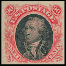 1869 Washington 90-cent essay